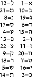 Tashbets cod1 the key